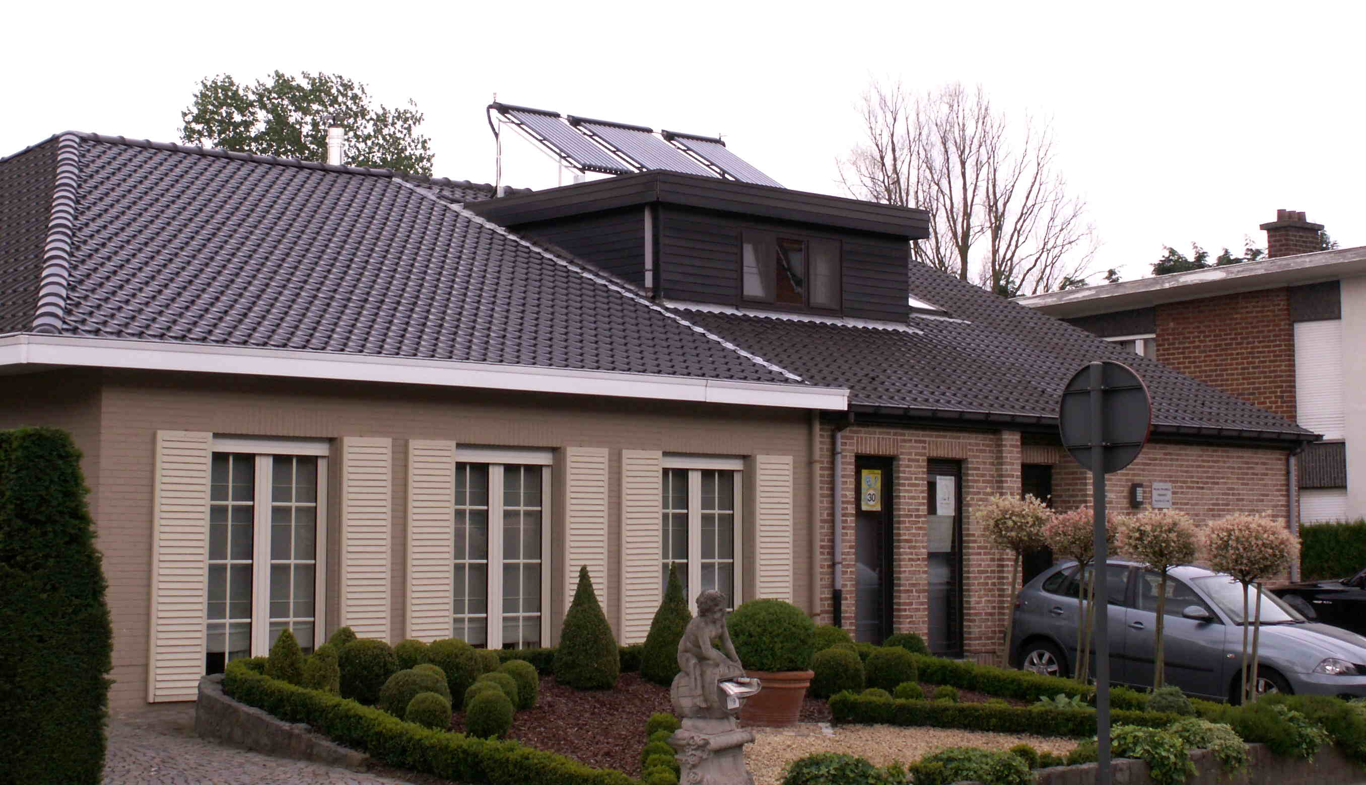 A picture of a house fitted with thermodynamic panels. The picture was taken in Belgium